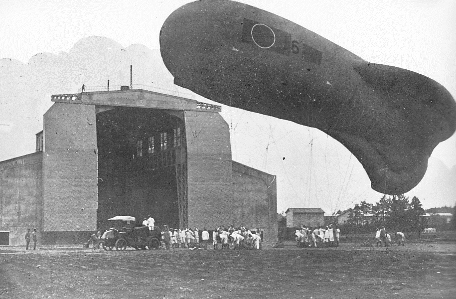 IJA(Imperial Japanese Army) Balloon Regiment